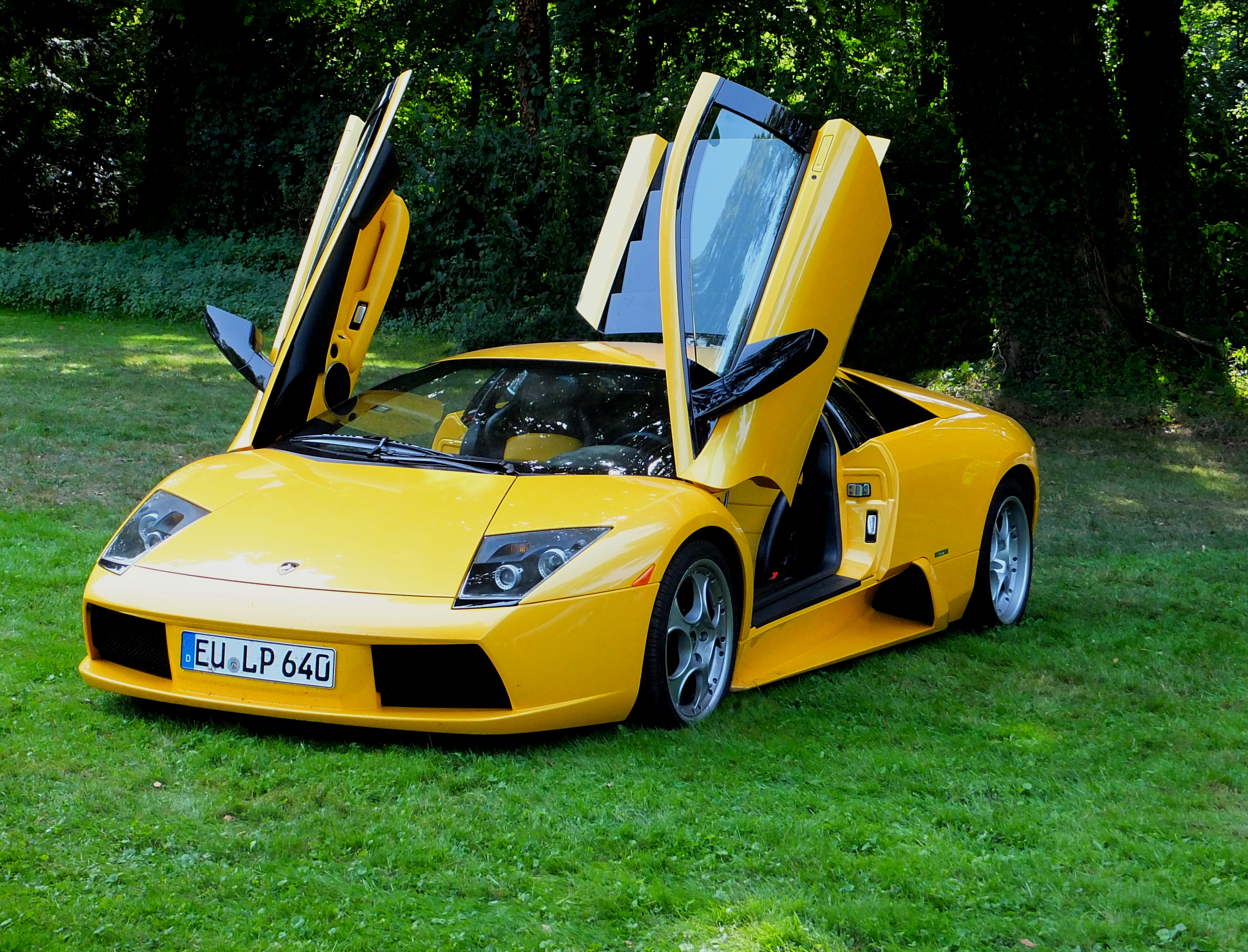 Lamborghini Murciélago Coupé; Cars and impressions at 25. Graf Berghe von Trips Gedächtnisfahrt 2012 in Kerpen